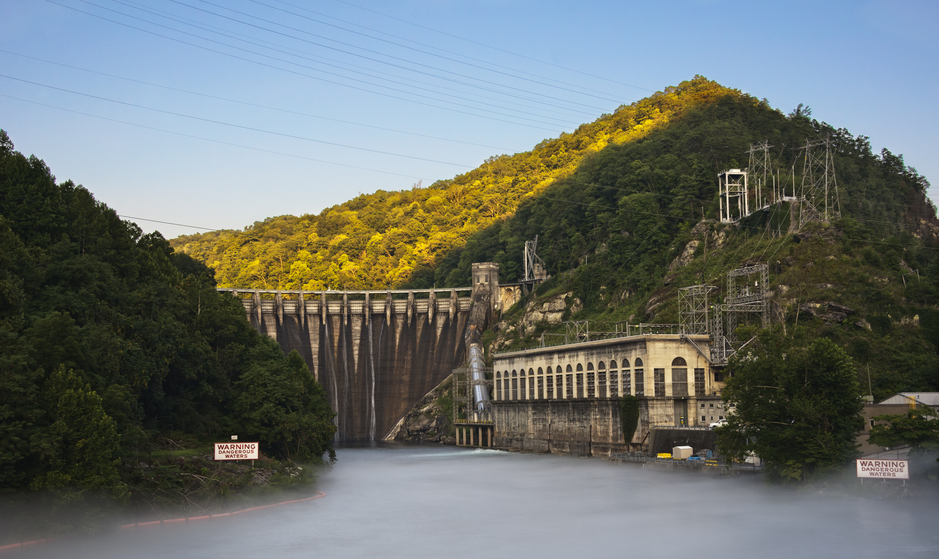 Cheoah Hydroelectric Development or just Cheoah Dam